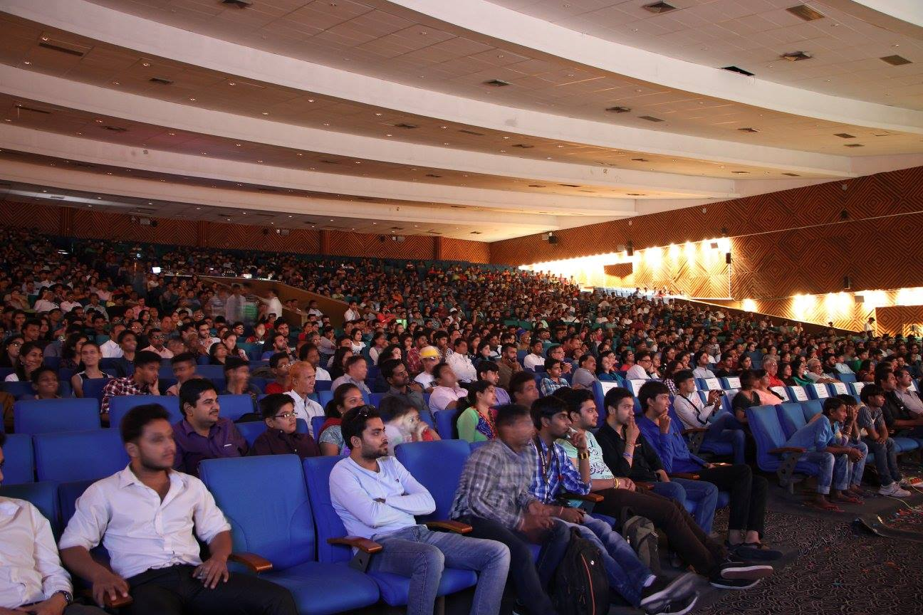 More than 3000 people flocked to attend this event